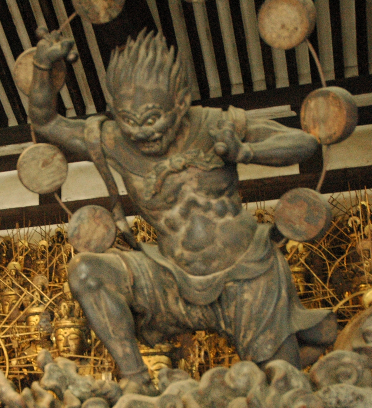 Statue of Raijin in Sanjūsangen-dō, Kyoto, Japan. About 1m tall, dated to 13th century Kamakura period. It has been designated as National Treasure of Japan.